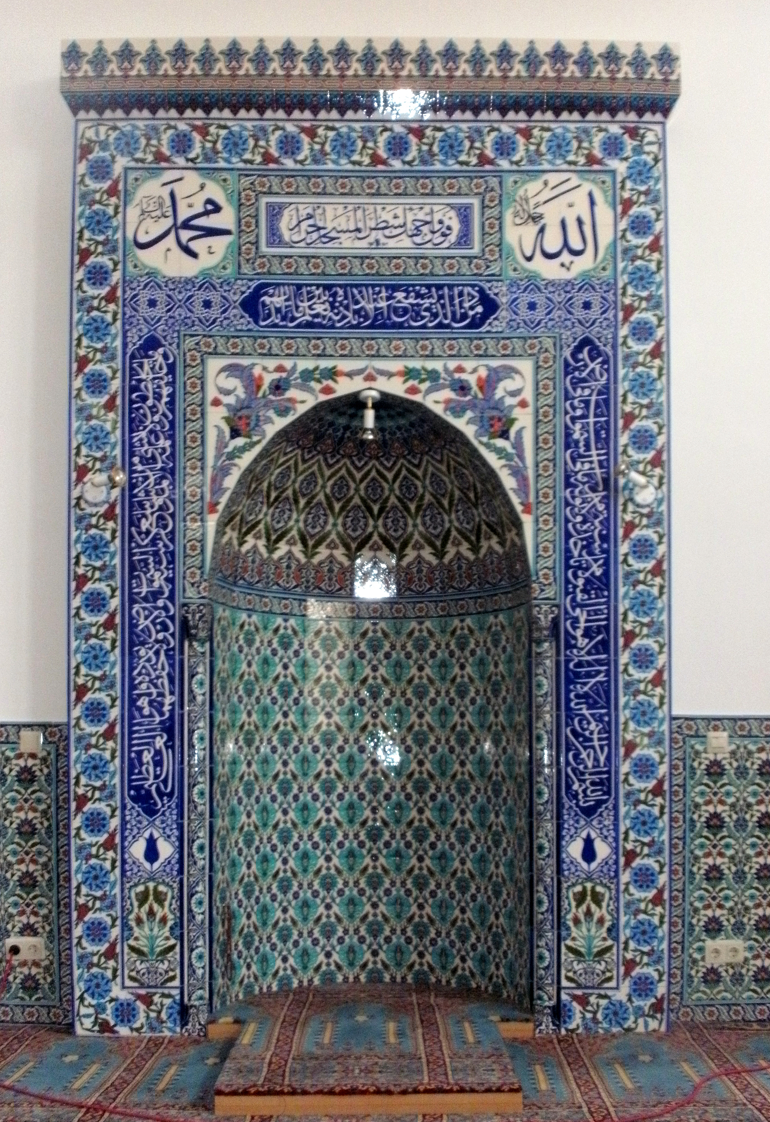 Interior of Alperenler mosque Rheinfelden (Baden), Germany.